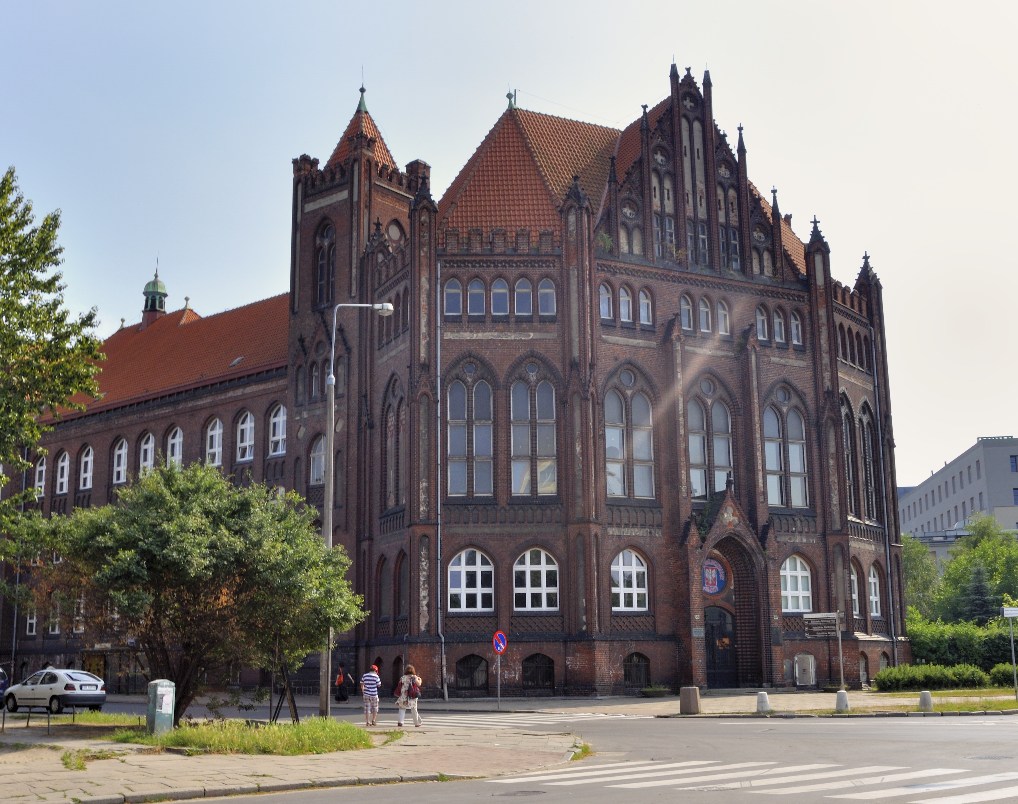 Picture taken in Gdańsk after Wikimania 2010 conference.